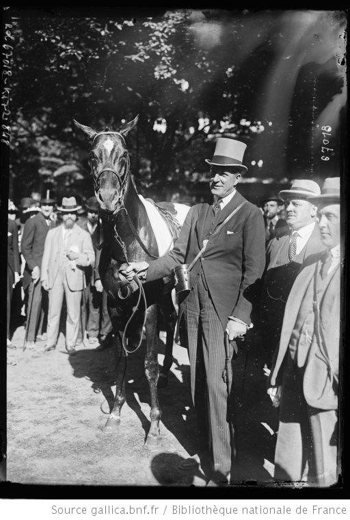 Joseph Watson, later 1st Baron Manton (died 1922) with his colt Lemonora after winning the Grand Prix de Paris, the world's richest racing prize, at Longchamps on 26 June 1921. For moving images see British Pathe